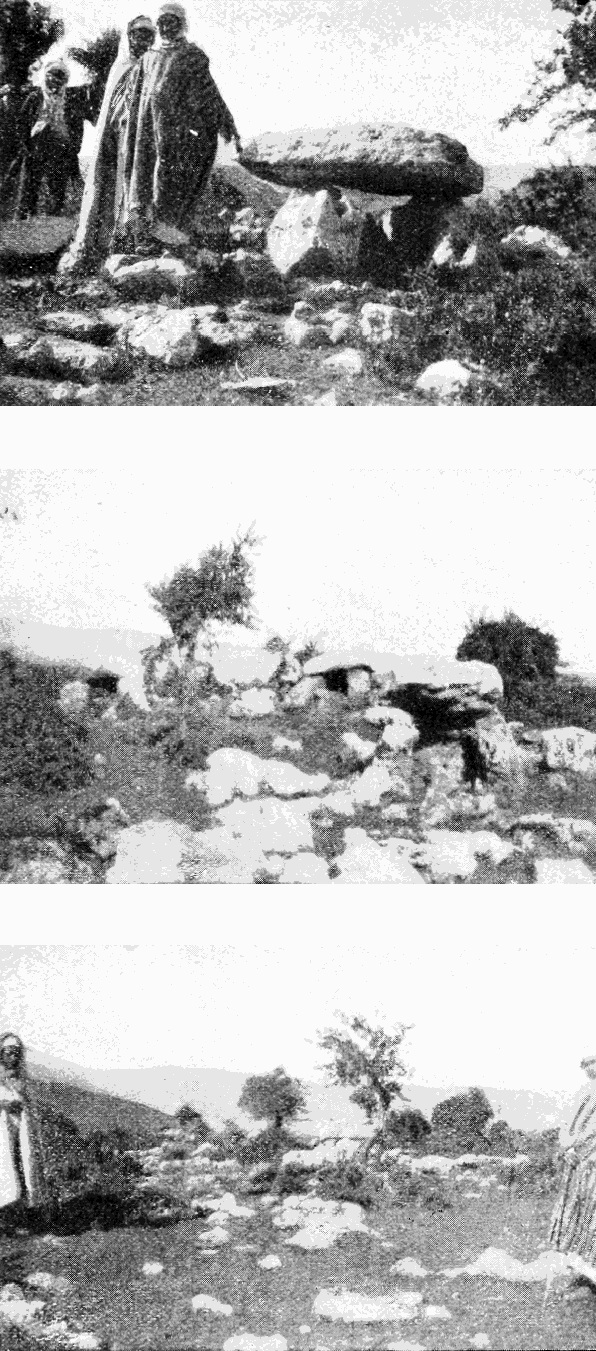 Dolmens at Rocknia Algeria